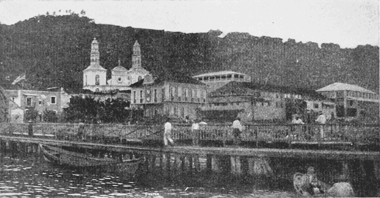 St Pierre, Martinique before the eruption